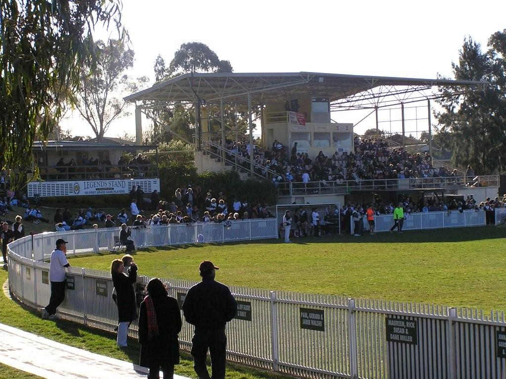 Dairy Farmers Park Queanbeyan NSW 2005. Home Ground of Queanbeyan Tigers Australian Football Club